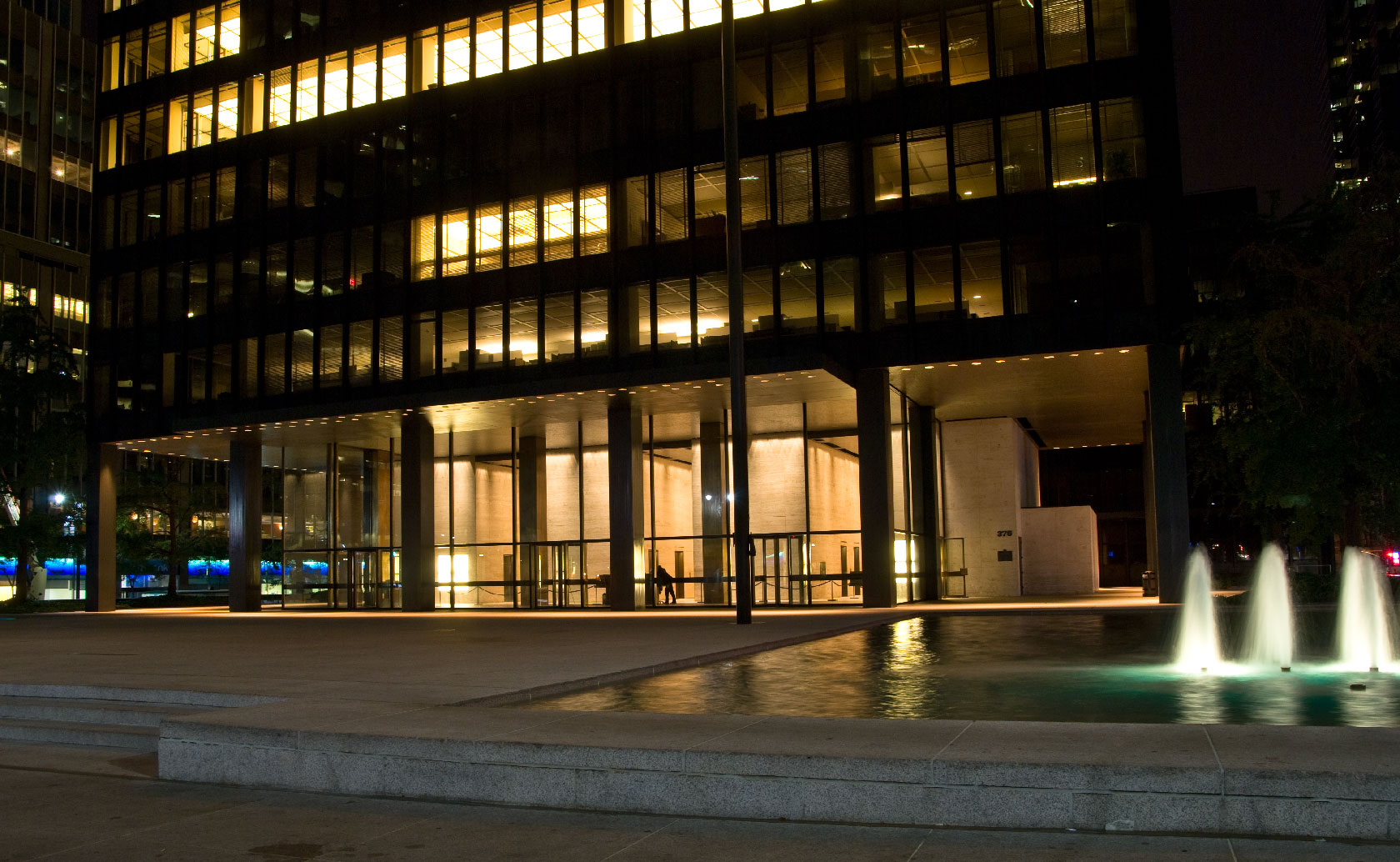 Seagram Building - NewYork - architects: Mies van der Rohe and Philip Johnson